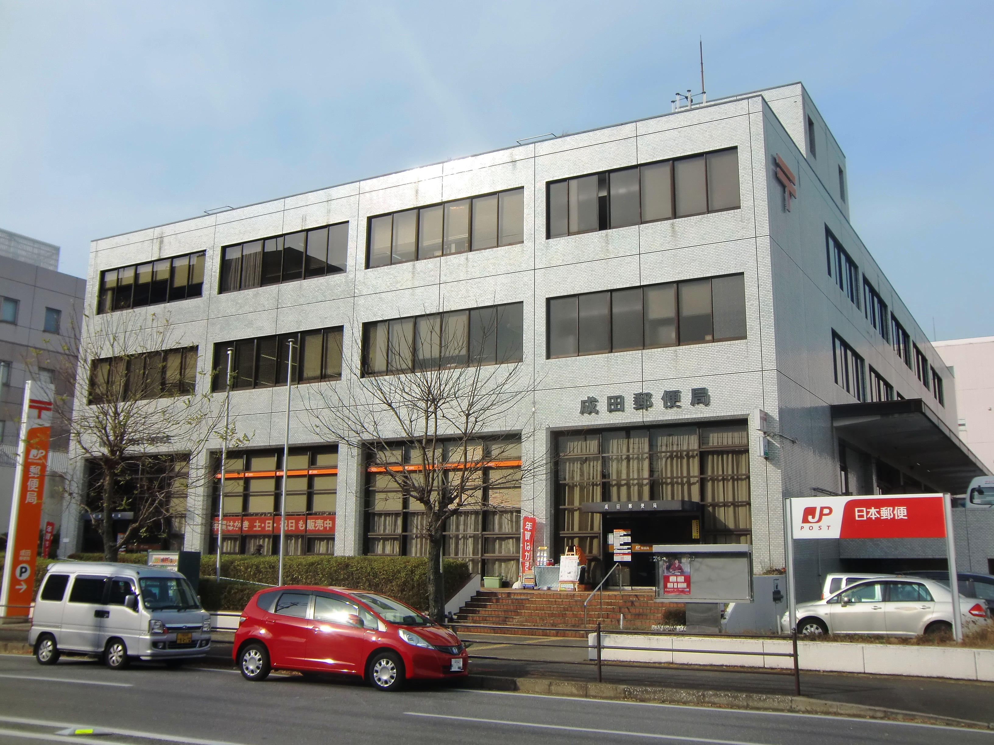 Narita Post office in Akasaka2-1-3 , Narita city, Chiba prefecture, Japan